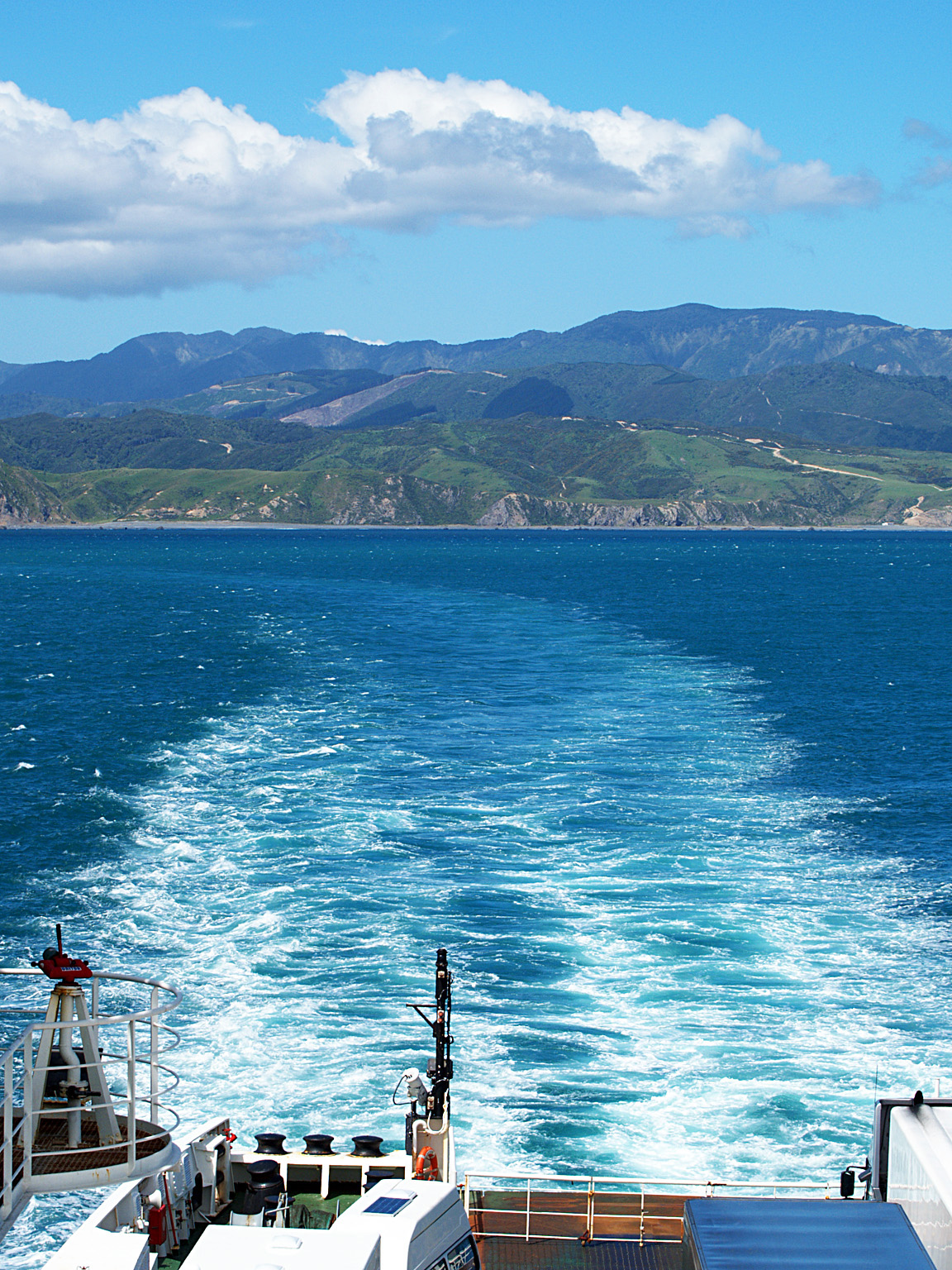 Cook Strait with entrance of Wellington Harbour and Rimutaka Range (view from west to east)